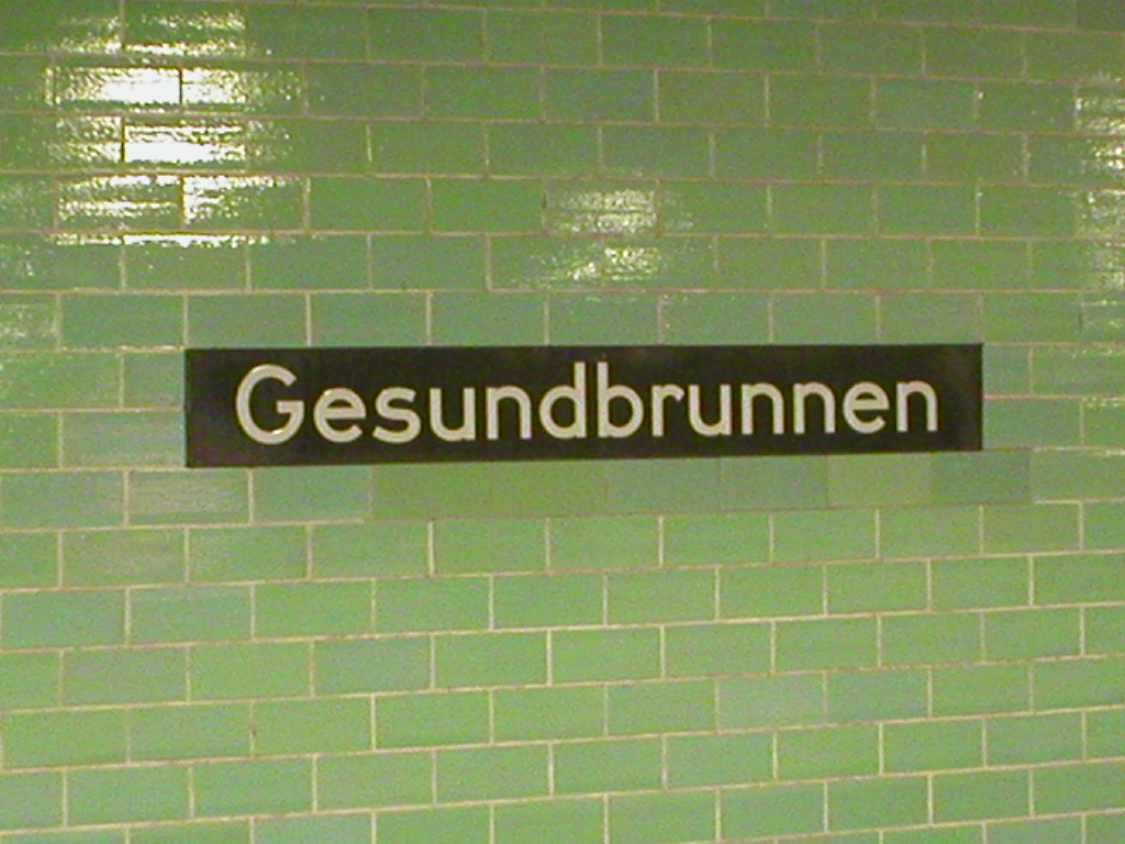 Berlin's undergroudn station Gesundbrunnen, line U8